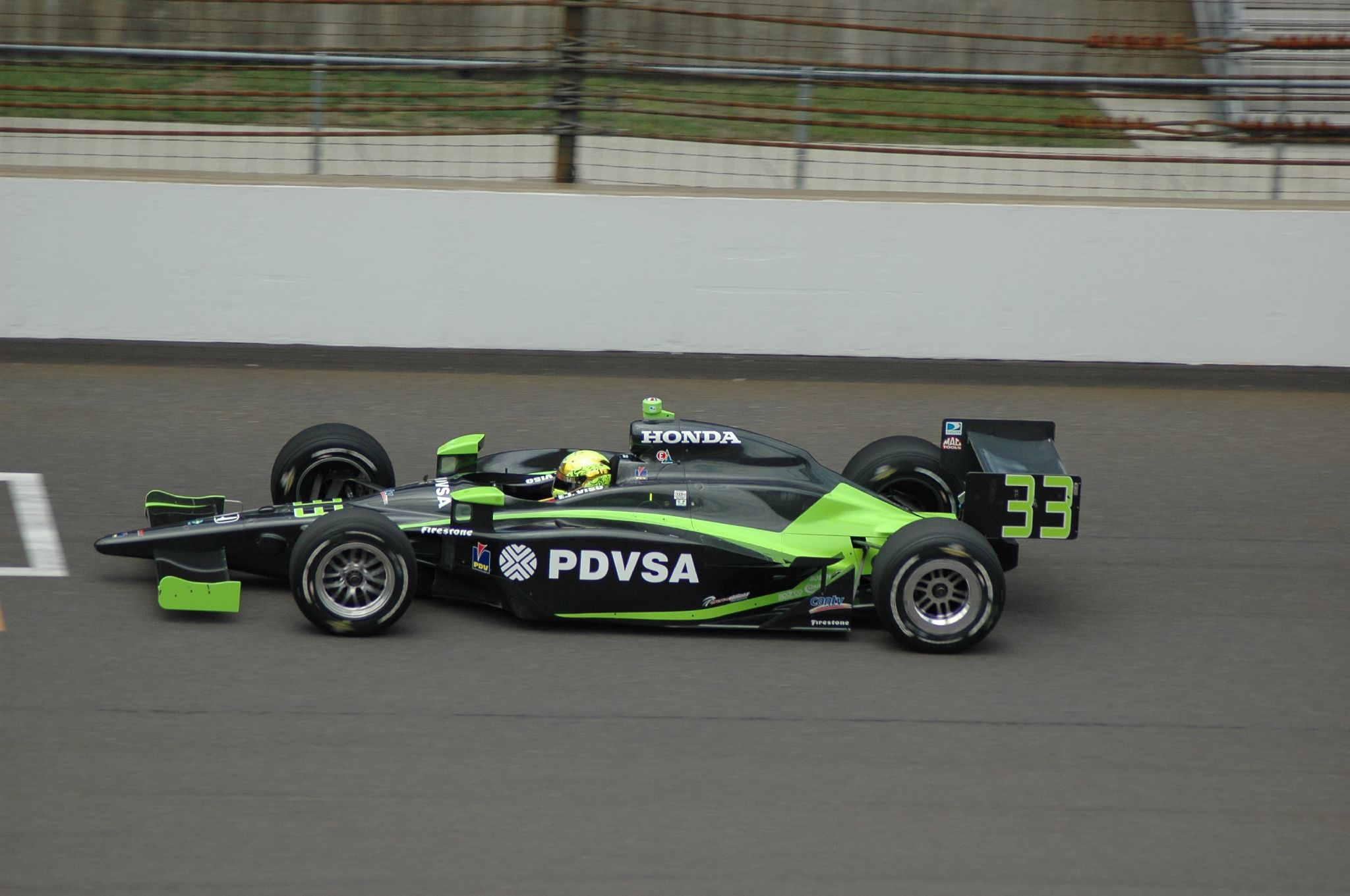 E.J. Viso at Indianapolis 500 practice.